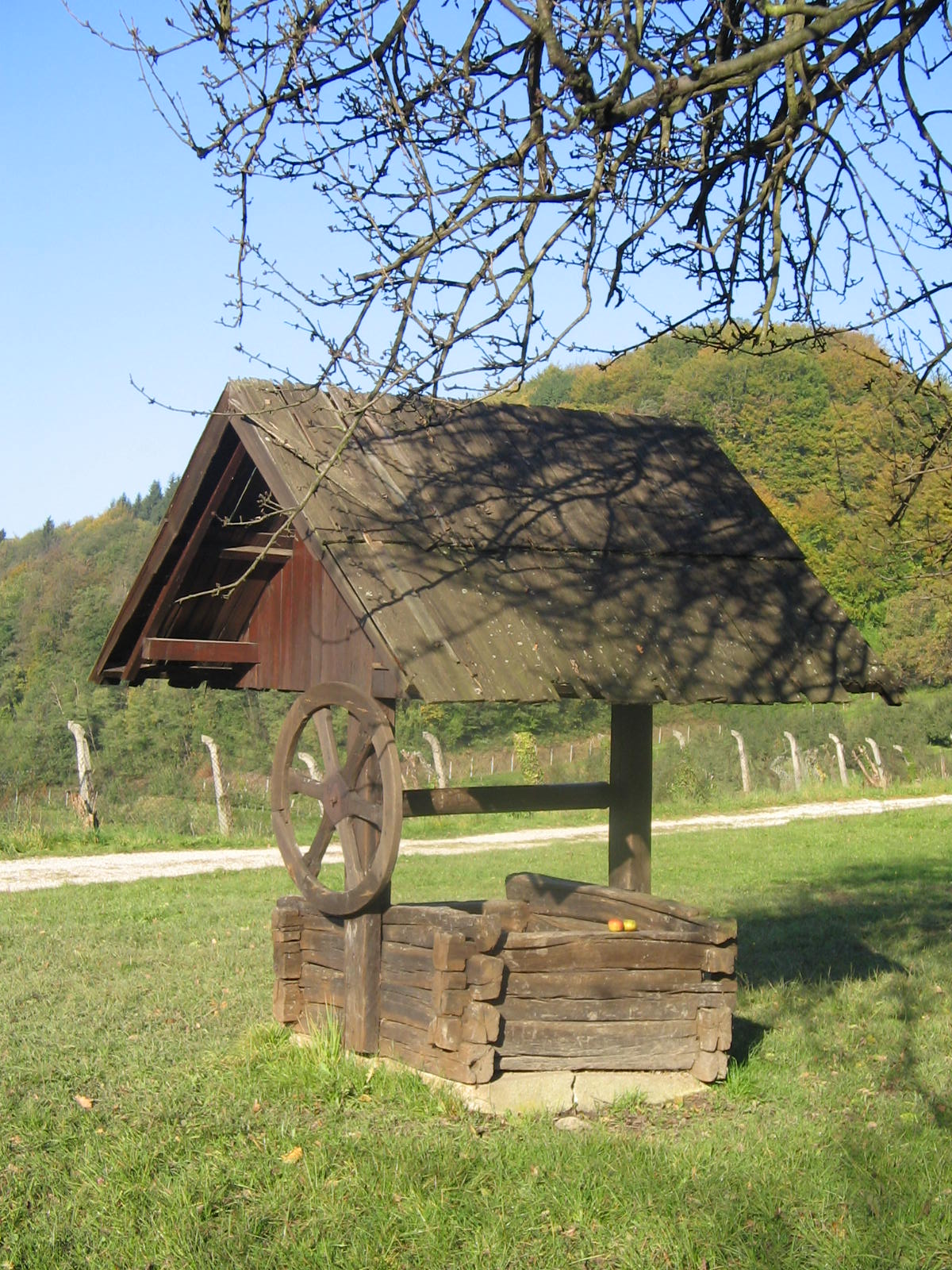 Open air museum Zaprice, well with spindle, begining 20th century Quelle: eigene Aufnahme 18. 10. 2005 Fotograf: Janez Novak, Ljubljana, Slovenija